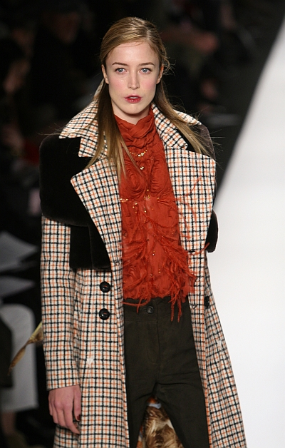 Raquel Zimmermann in Carolina Herrera Fall 2008 depicted person: Raquel Zimmermann (age: 24.75)